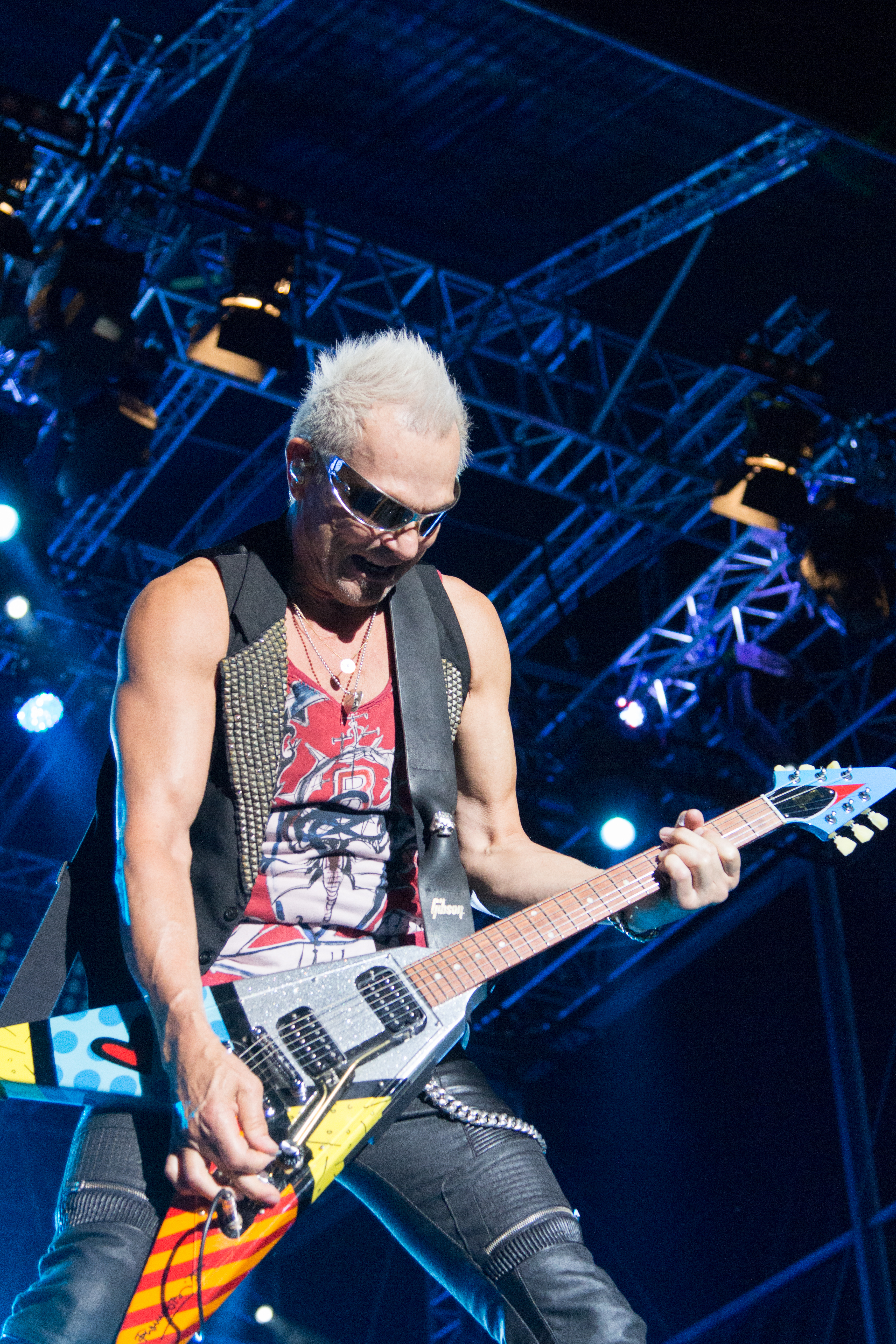 Rudolf Schenker from the Scorpions at the See-Rock Festival 2014